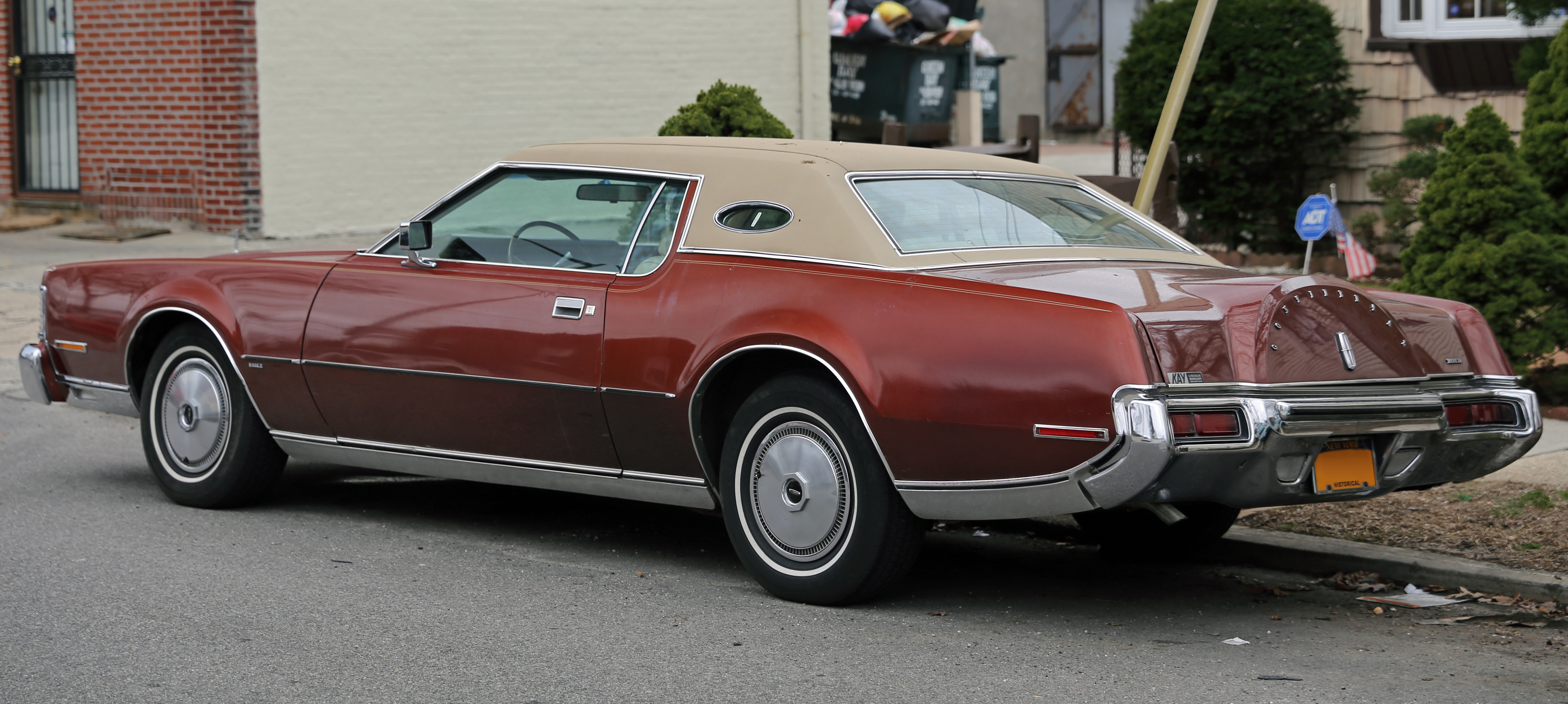 A 1973 Lincoln Continental Mark IV. 460 4-barrel V8, built in Wixom, MI.